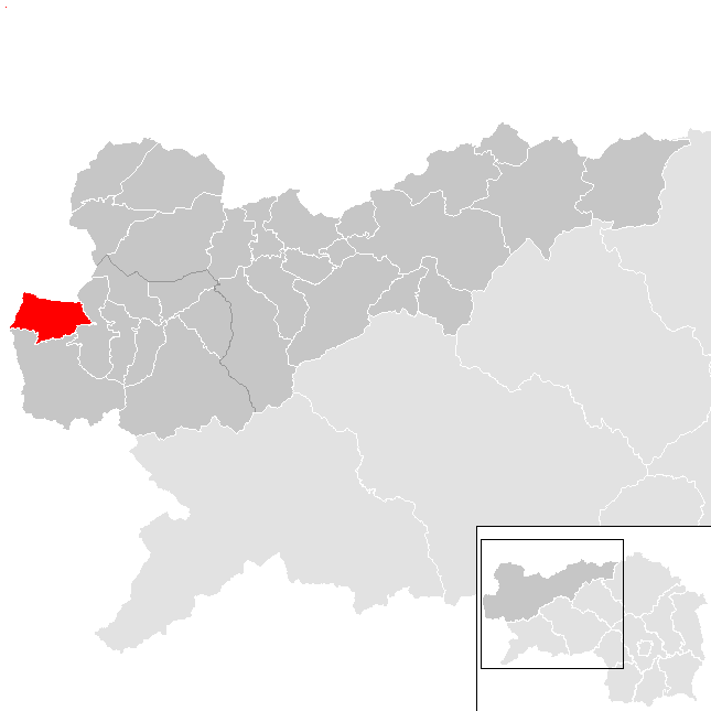 District Leoben